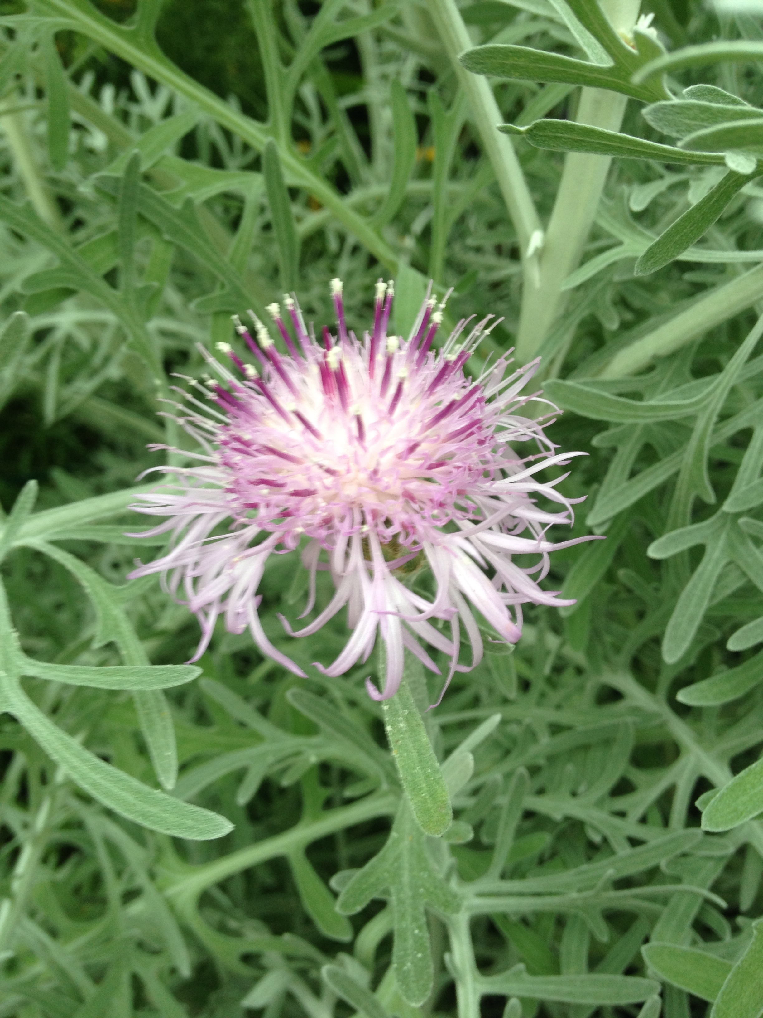 Centaurea cineraria